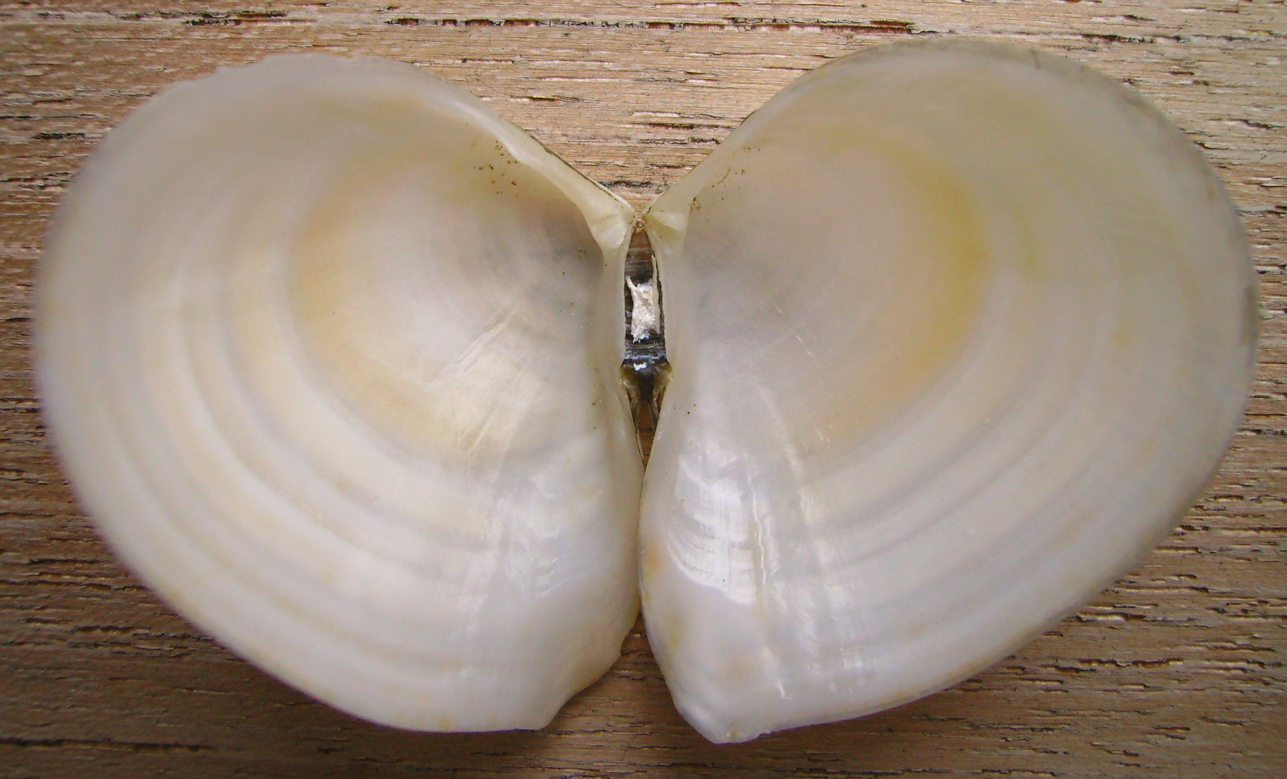 Macomona liliana (large wedge shell) inside, from Auckland, New Zealand. This work has been released into the public domain by its author, Graham Bould. This applies worldwide. In some countries this may not be legally possible; if so: Graham Bould grants anyone the right to use this work for any purpose, without any conditions, unless such conditions are required by law.